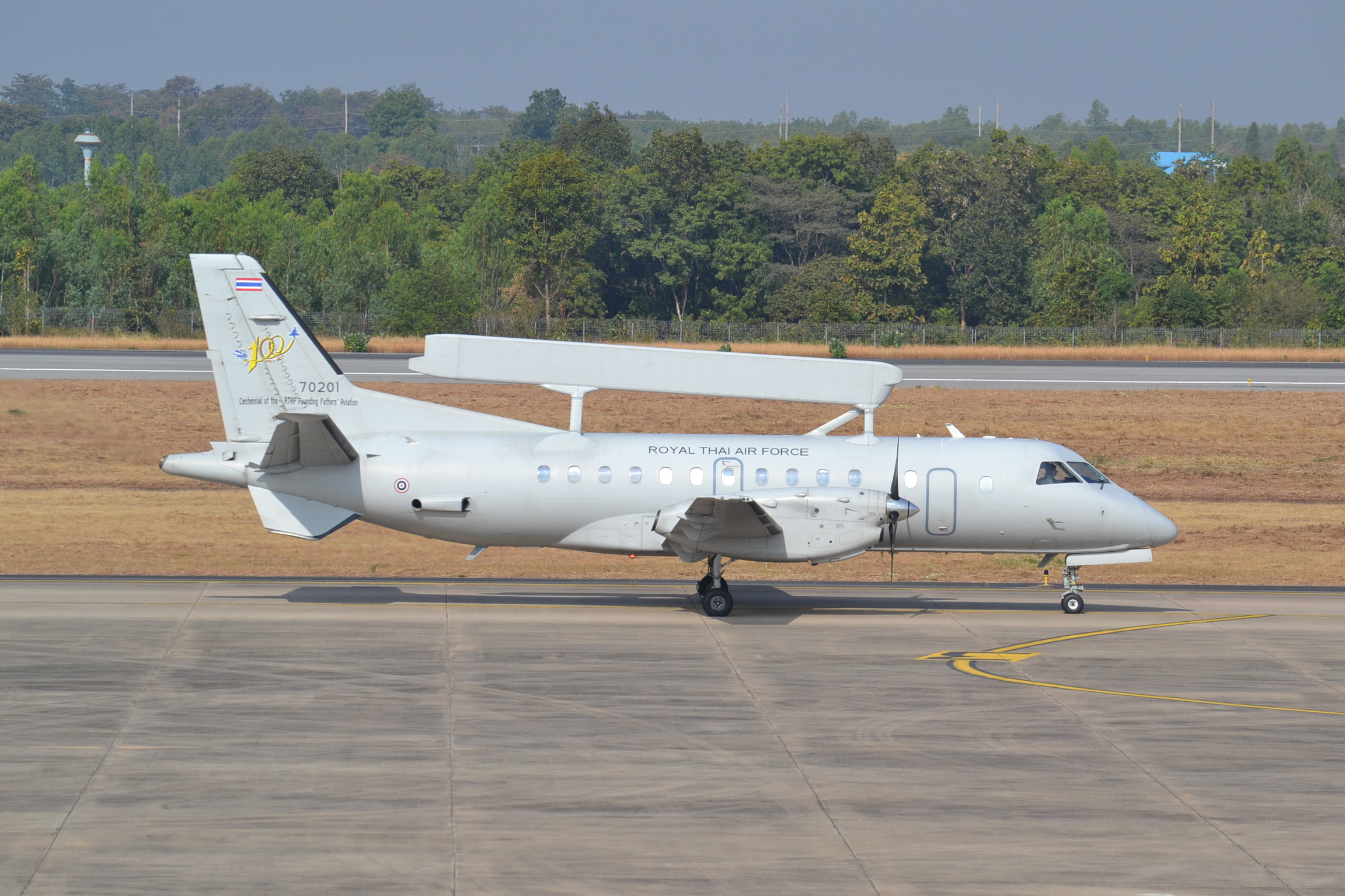 SAAB 340AEW of the Royal Thai Air Force at Khon Kaen-KKC, Thailand, 13/12/13. (Carries additional 100 ,1913 - 2013, Centenial of the RTAF Founding Fathers' Aviation titles on tail which is in Thai language on port side.)